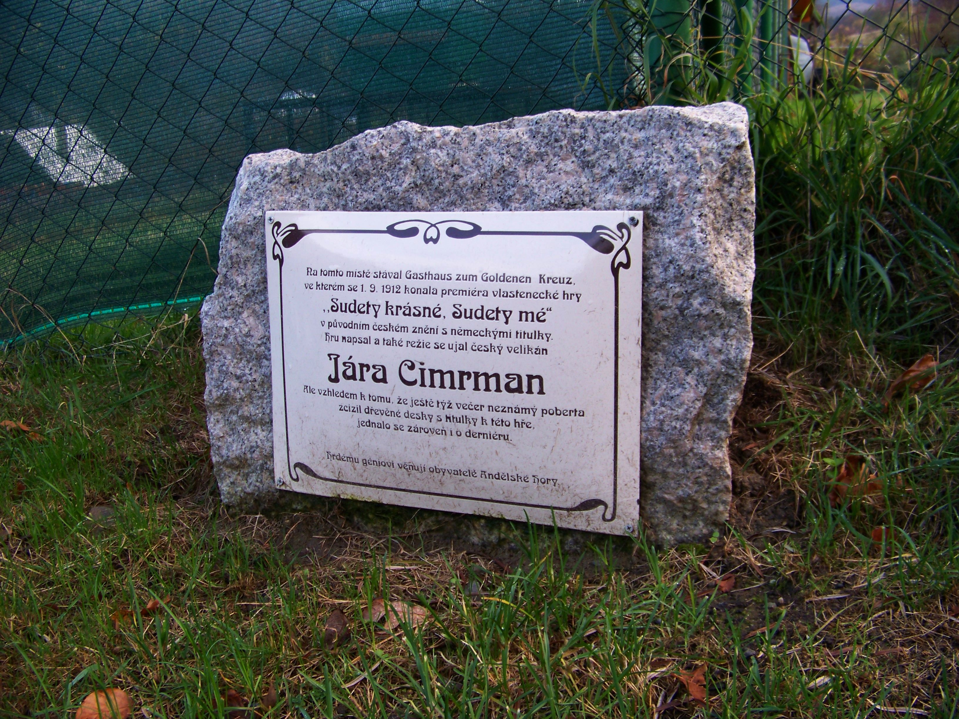 Chrastava-Andělská Hora, Liberec District, Liberec Region, Czech Republic. Jára Cimrman memorial opposite the house No. 7. - Google Maps - Google Earth